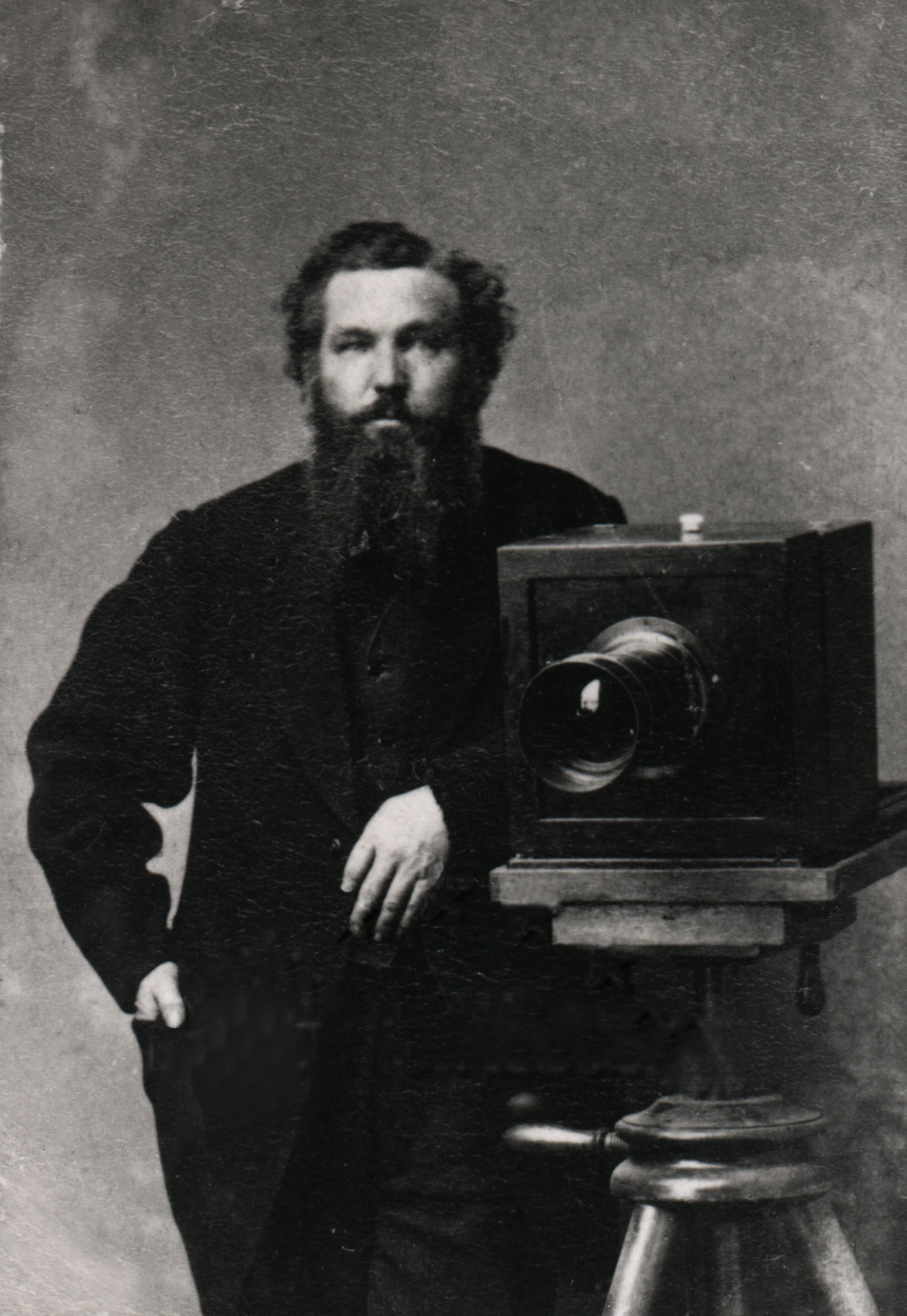 Alexander Gardner, self-portrait. The Scottish-born photographer Alexander Gardner (1821-1882) was appointed a staff photographer under General George B. McClellan. He became famous for his Civil War-era images, including the aftermath of the Battle of Antietam. Image credit: Library of Congress.